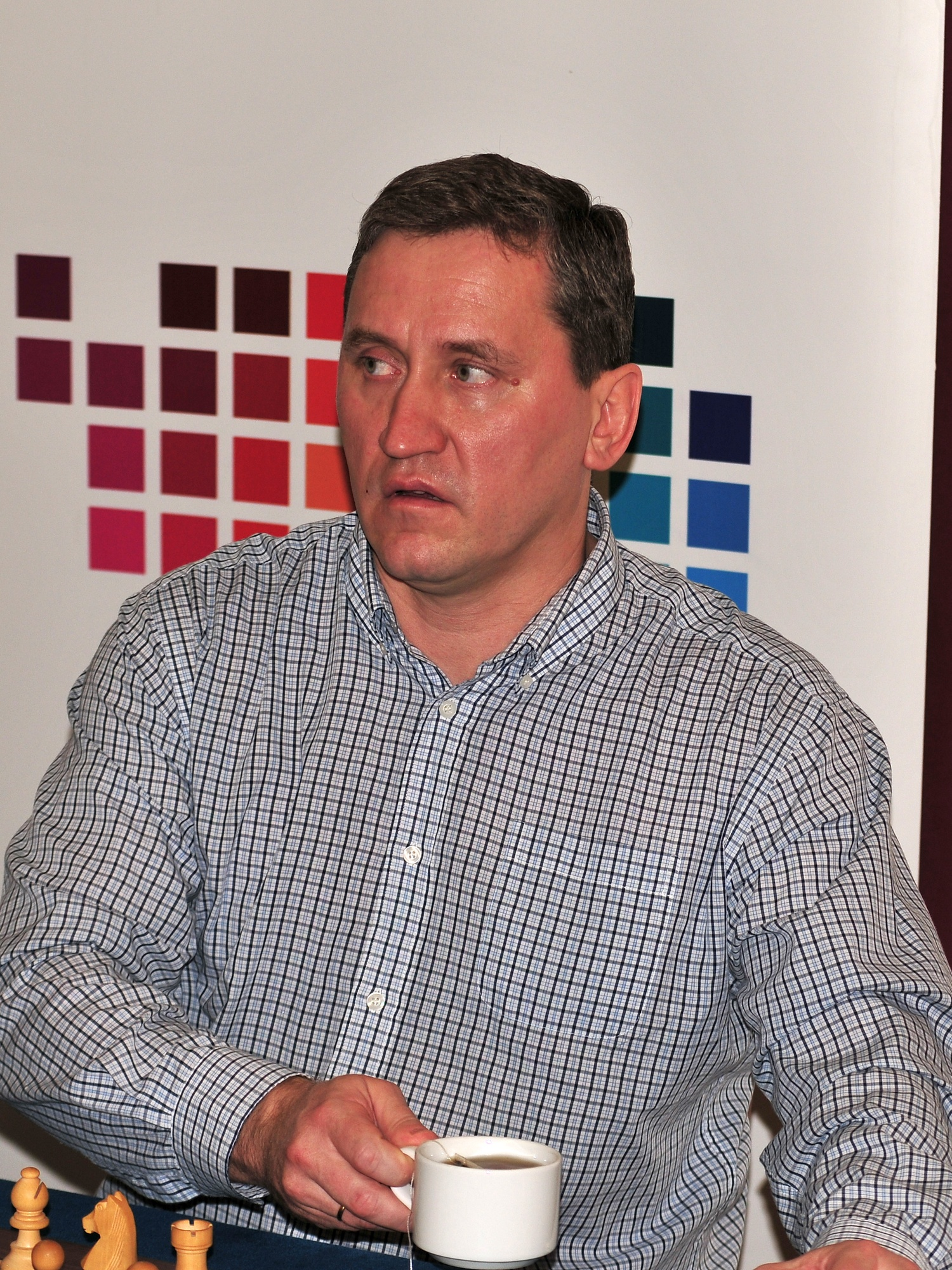 GM Oleg Korneev, European Chess Team Championship Warsaw 2013